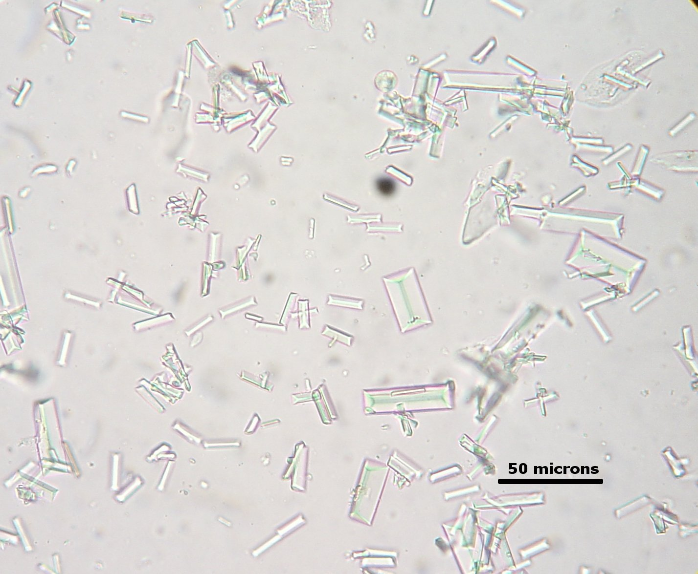 Struvite (magnesium ammonium phosphate) crystals found microscopically in a urinalysis of a dog with a bladder infection.